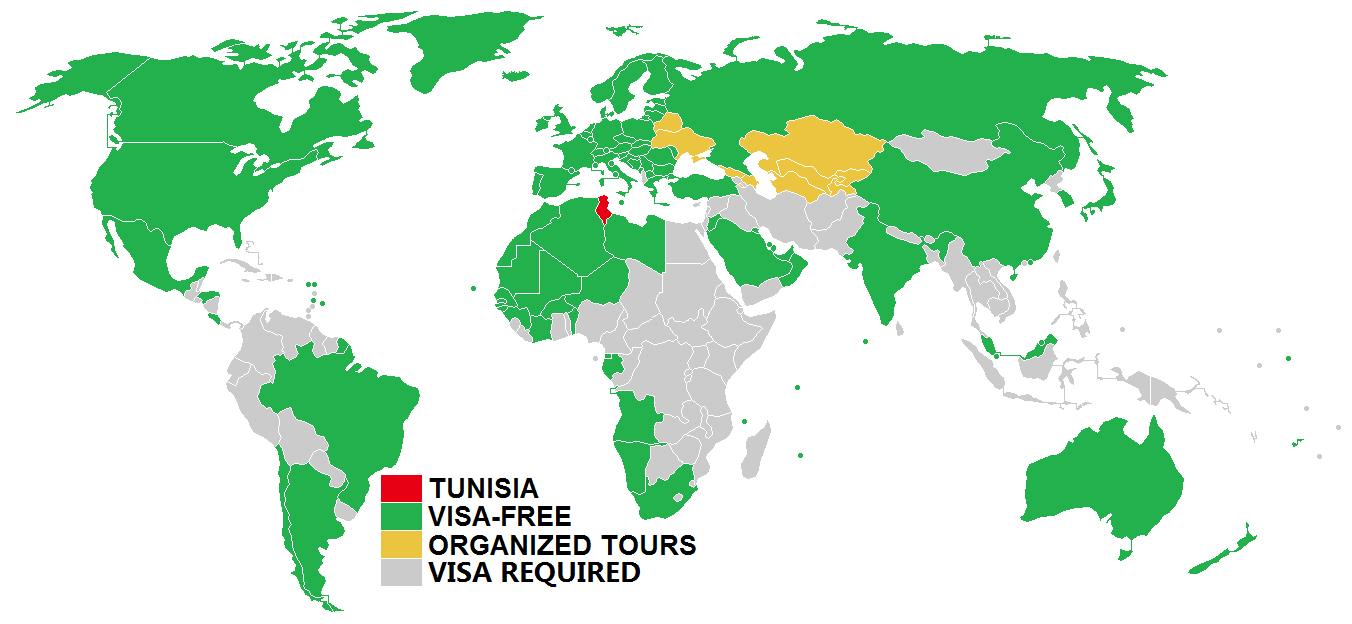 Visa policy of Tunisia Tunisia Visa-free Organized tour Visa required